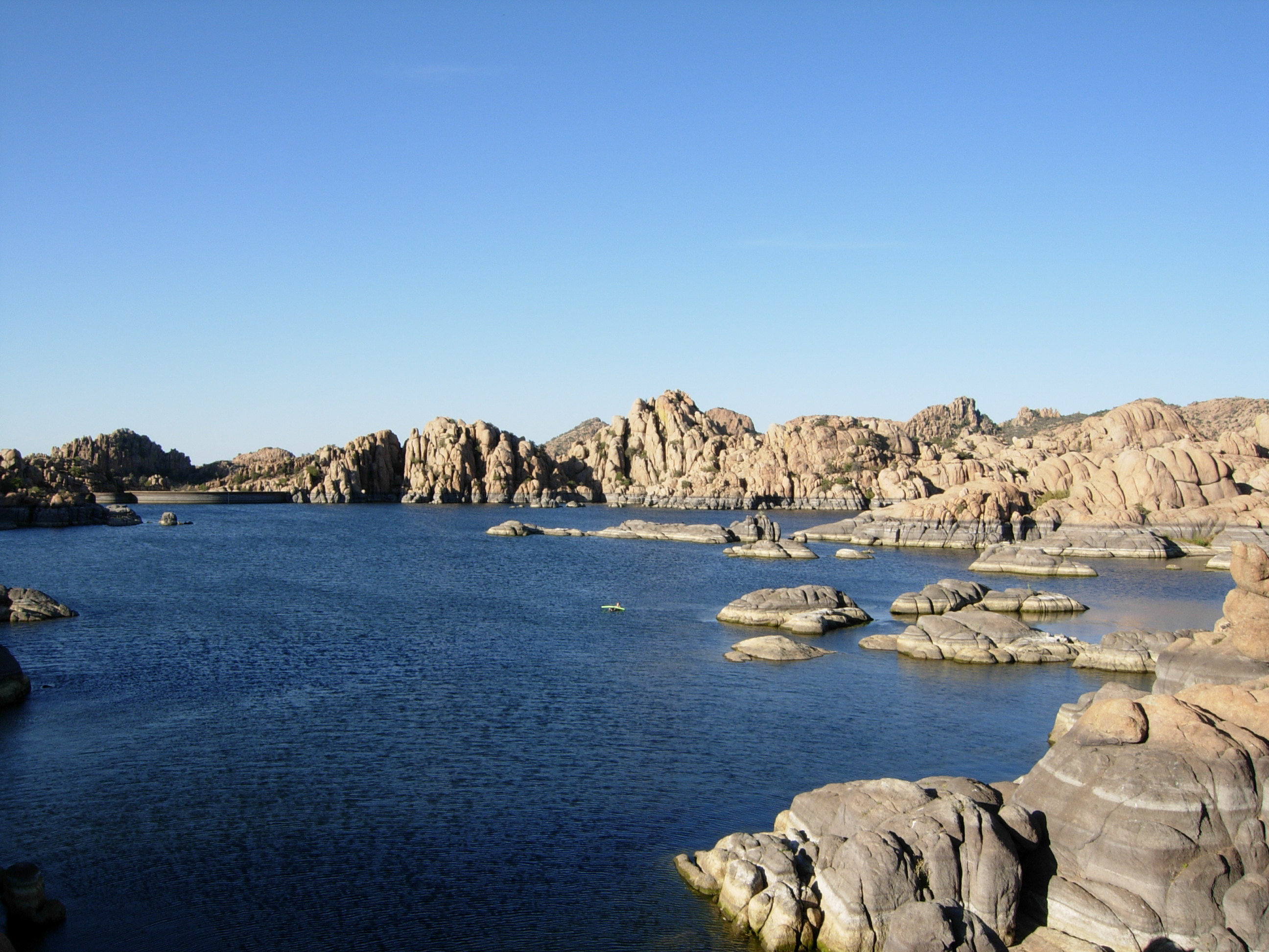 Watson Lake outside of Prescott, Yavapai County, Arizona